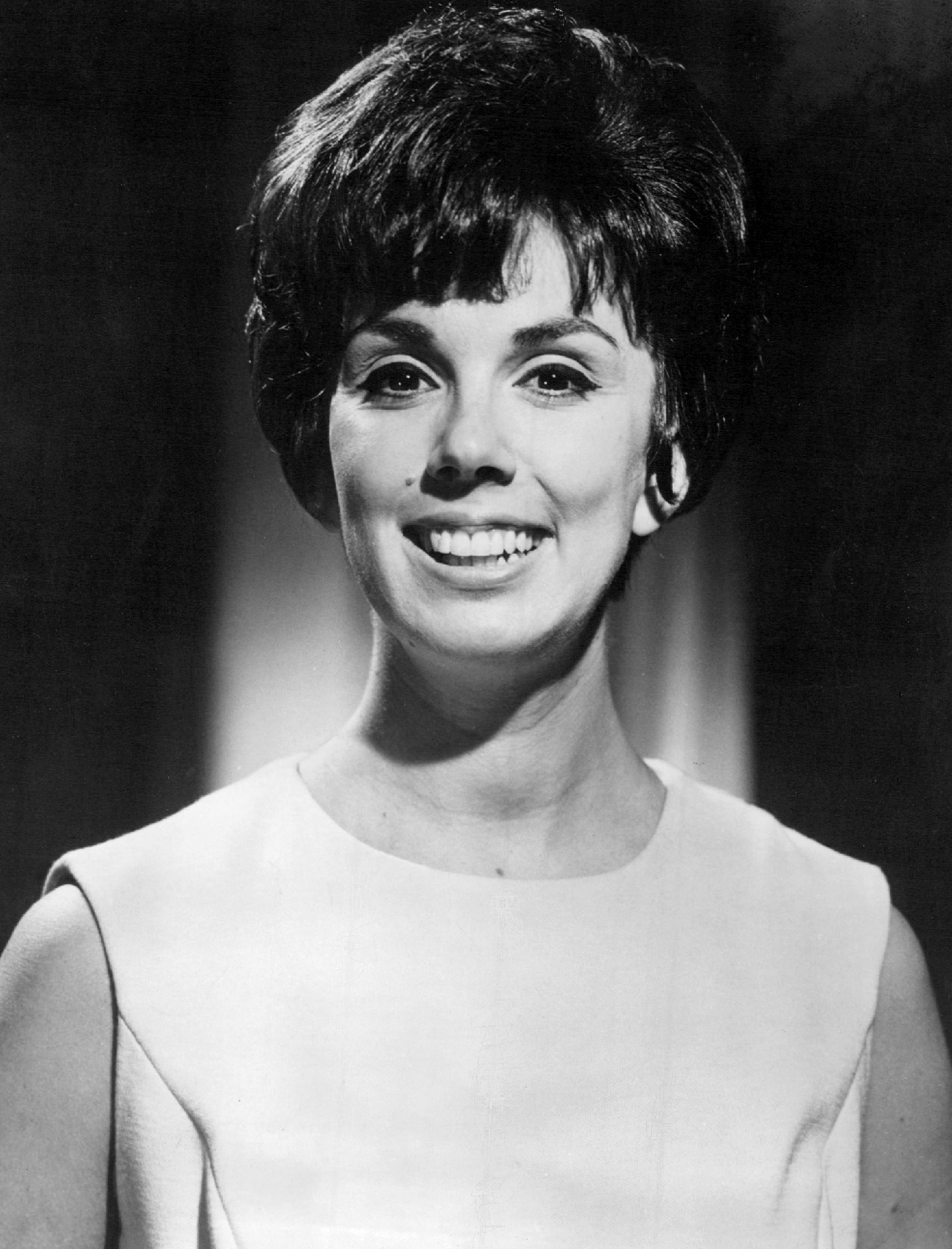 Photo of singer-actress Phyllis Newman from a presentation on the ABC anthology series ABC Stage 67.